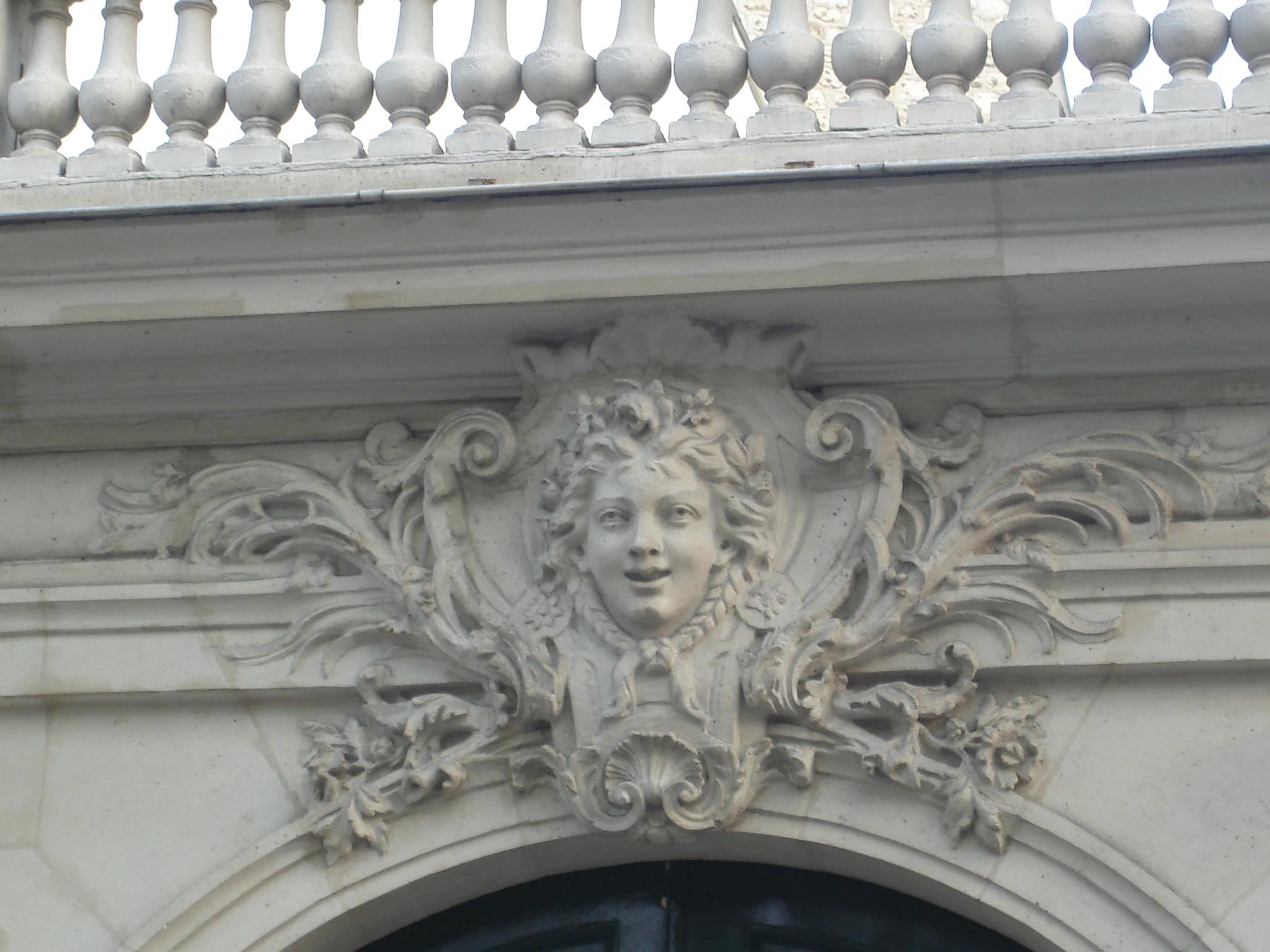 22 boulevard de Courcelles (Paris 17eme). Mansion house, now the ambassy of Lithuanie